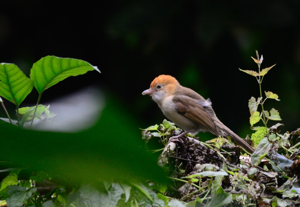 White hooded Babbler (Gampsorhynchus_rufulus) juvenile at Namdapha National Park, India